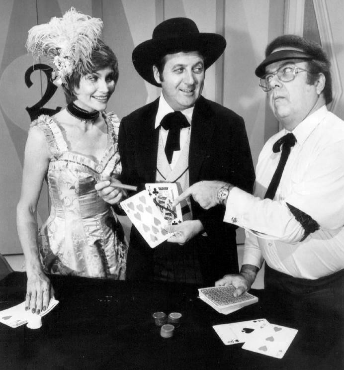 Publicity photo of Carol Merrill, Monty Hall and Jay Stewart from the television program Let's Make a Deal.